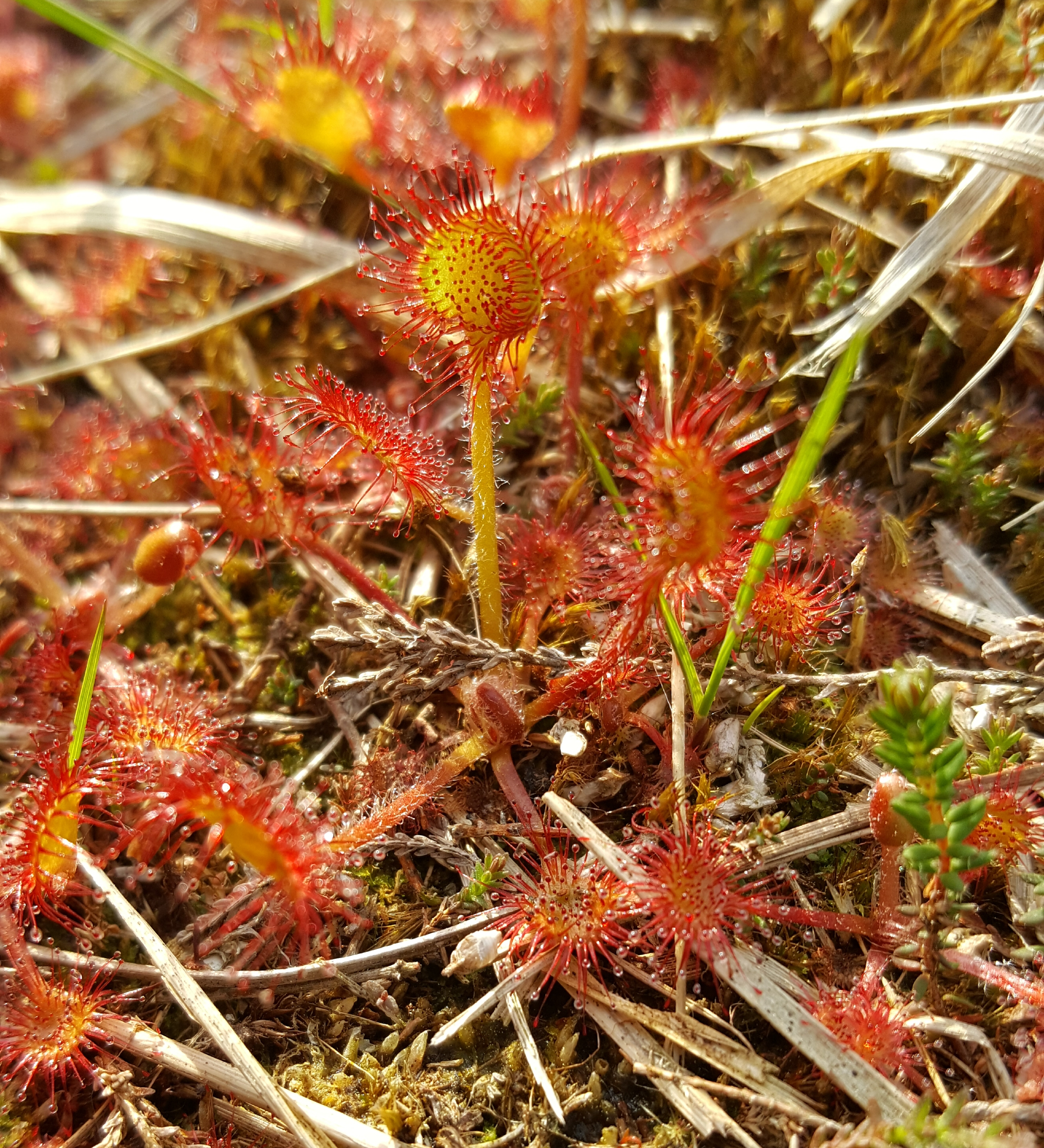 Drosera rot., Esterweger Dose, County Emsland, Lower Saxony, Germany